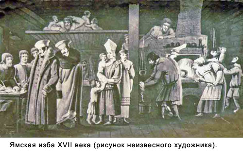 Yam house of the XVIIth century (an old Russian post station).